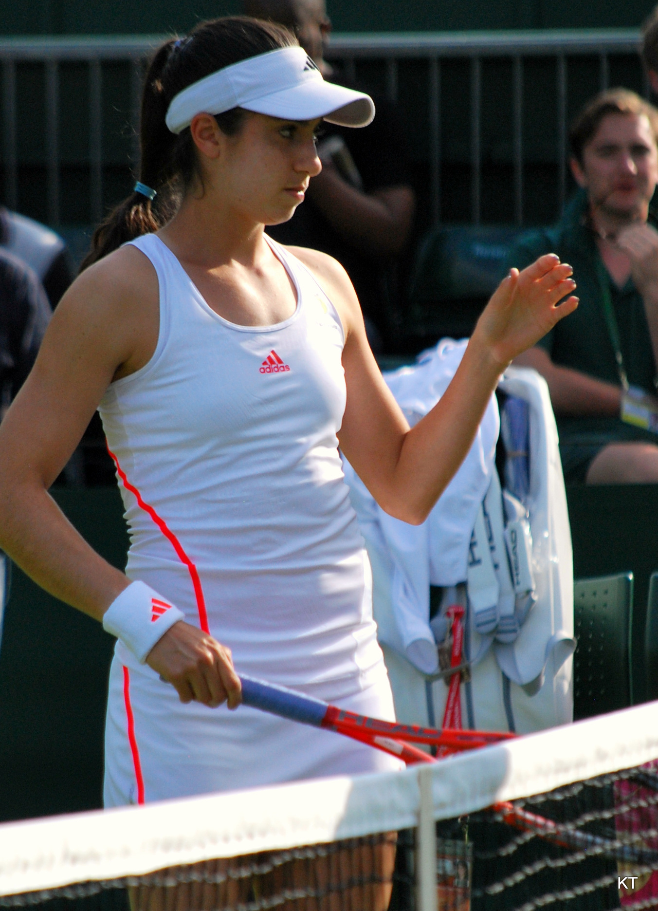 Christina McHale at the Wimbledon Championships 2012